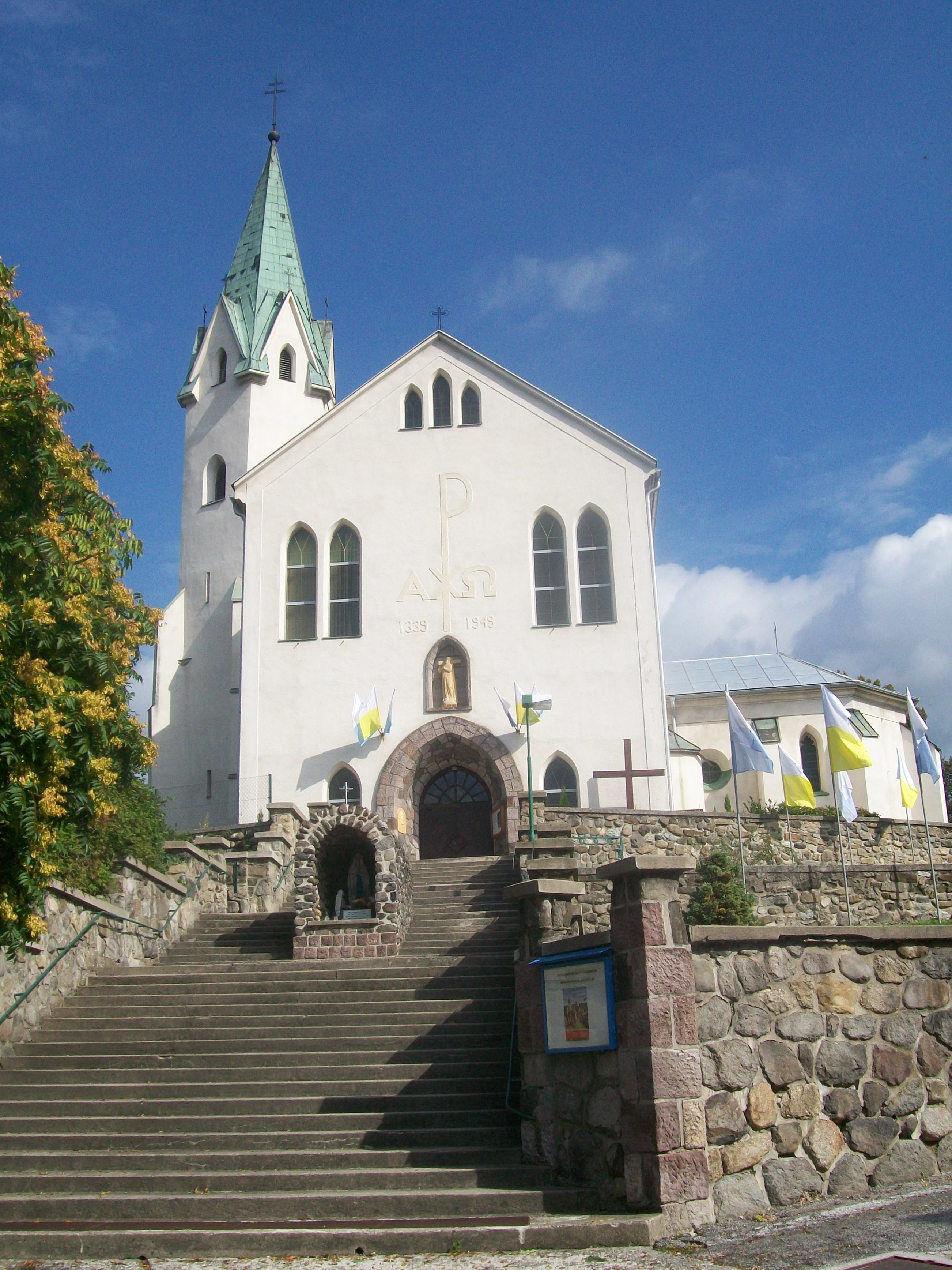 Church of St. Michael the Archangel in Chrenovec-Brusno, is originally a Gothic church from the mid-14th century, after the fire 17 July 1947 extended the new three-aisle space, designed by Eugen Bartaloš and J. Baťka, transverse ​​built to the original presbytery Object location48° 46′ 47.71″ N, 18° 43′ 43.03″ E